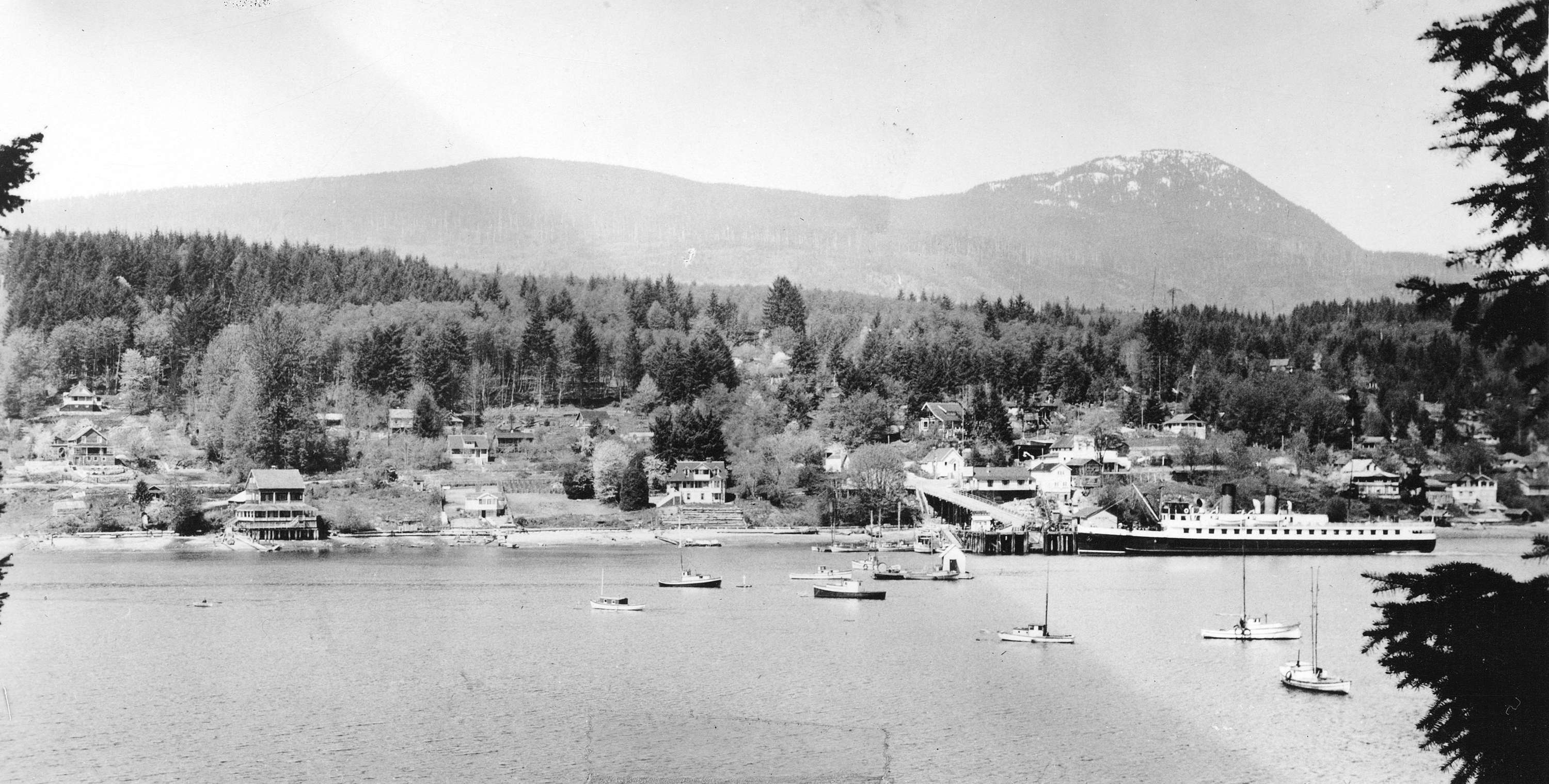 View of Gibsons Landing, British Columbia, from the water. Photograph shows the S.S. "Lady Cecilia" at dock.